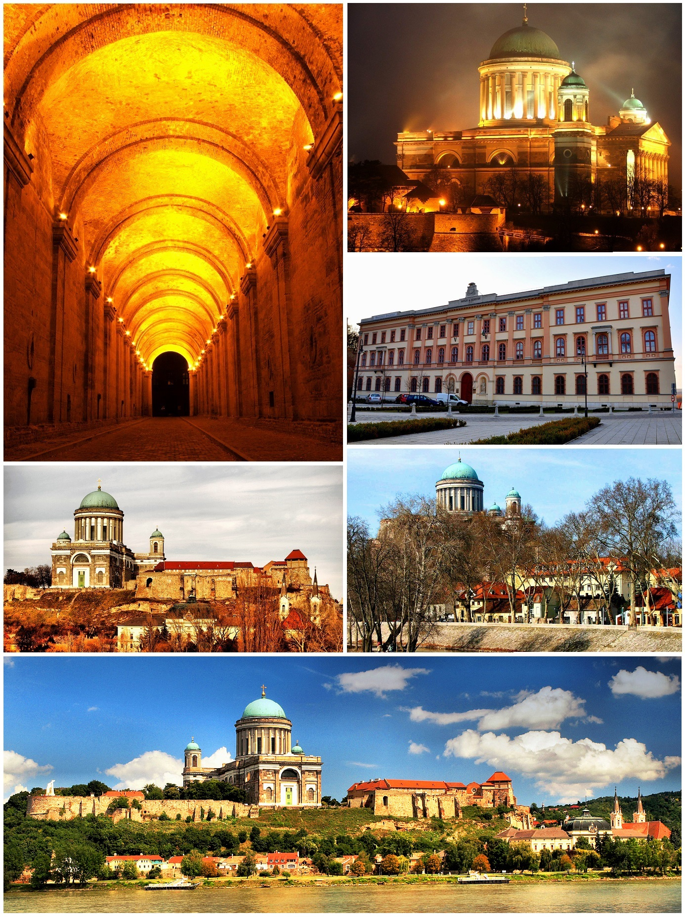 Montage of Esztergom